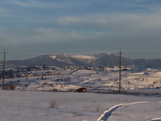 Mica Peak, Idaho